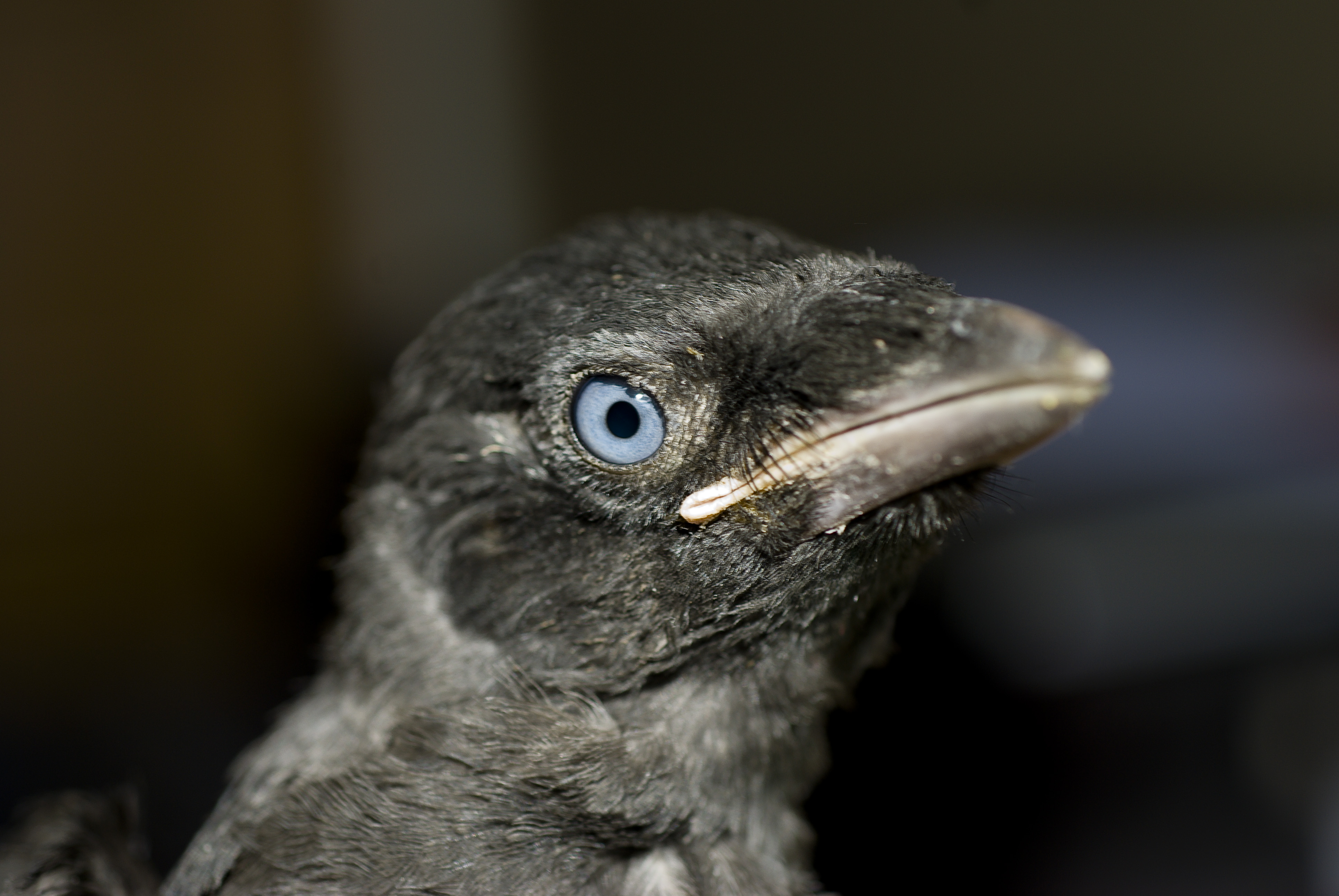 A juvenile Jackdaw Coloeus monedula in Newcastle upon Tyne, England. It was photographed after it was found in a house having fallen down a chiminey. The photographer reports that it was realeased and found it parents.